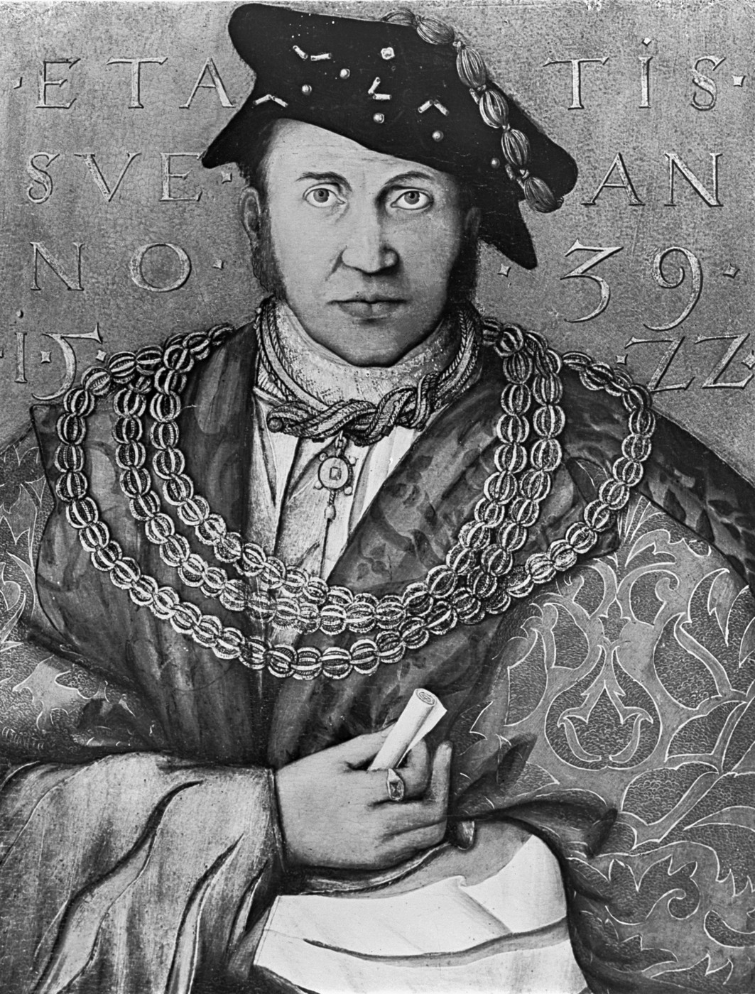 painting showing George, Margrave of Brandenburg-Ansbach, known as George the Pious